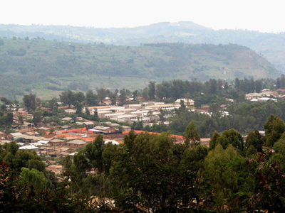 Panzi Hospital seen from a distance, Bukavu, South Kivu, Democratic Republic of the Congo.